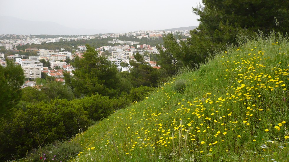 The above picture depicts the penteli scenery.